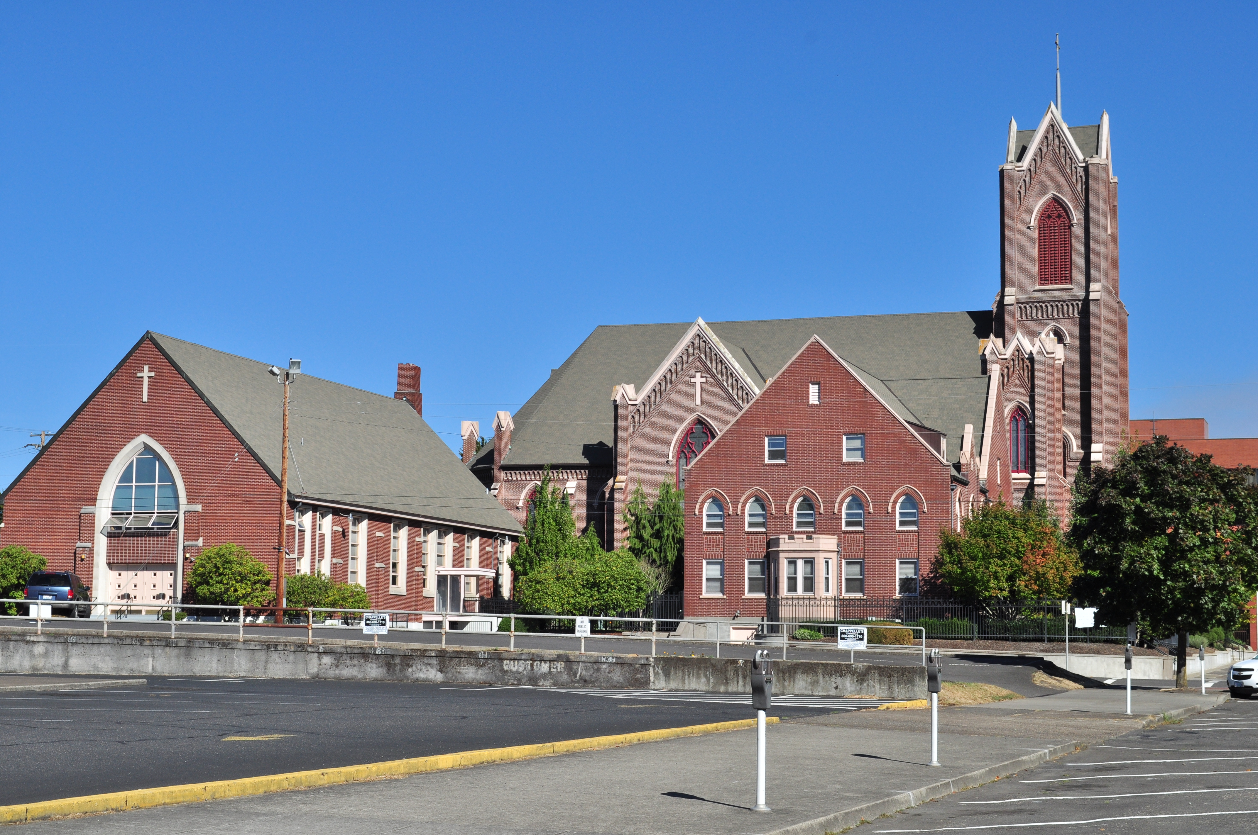 St. James Catholic Church, Vancouver, Washington.